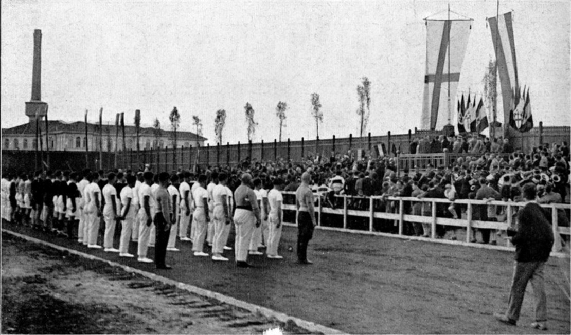 Official opening of Mario Giuriati sports centre in Milan, 1929